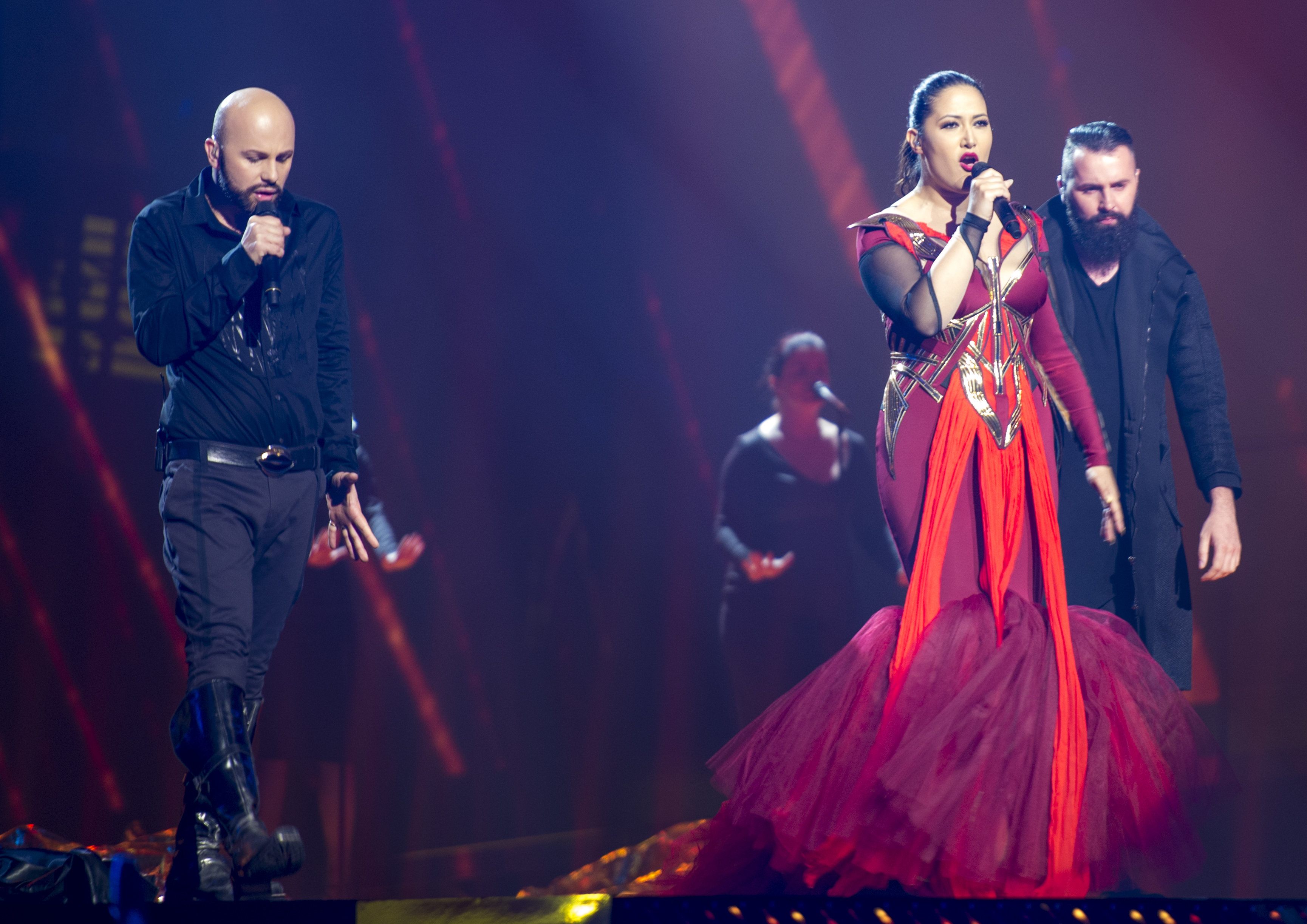 Dalal & Deen feat. Ana Rucner and Jala representing Bosnia and Herzegovina with the song "Ljubav je" during a rehearsal before the first semi final of the Eurovision Song Contest 2016 in Stockholm. (Help translate this text)